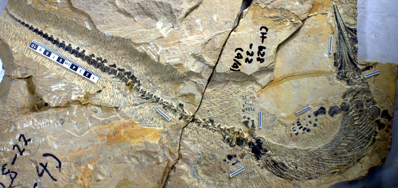 Chaohusaurus specimen AGM CH-628-22, a complete skeleton that preserves the tail tip. Large scale bars are 10 cm, and short bars 2 cm.